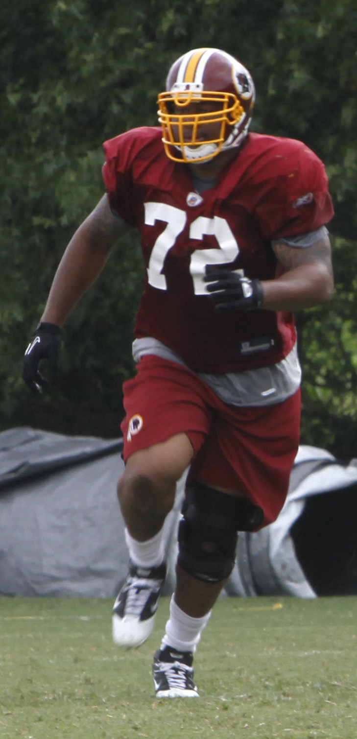 Stephen Bowen at Redskins Training Camp August 15, 2011